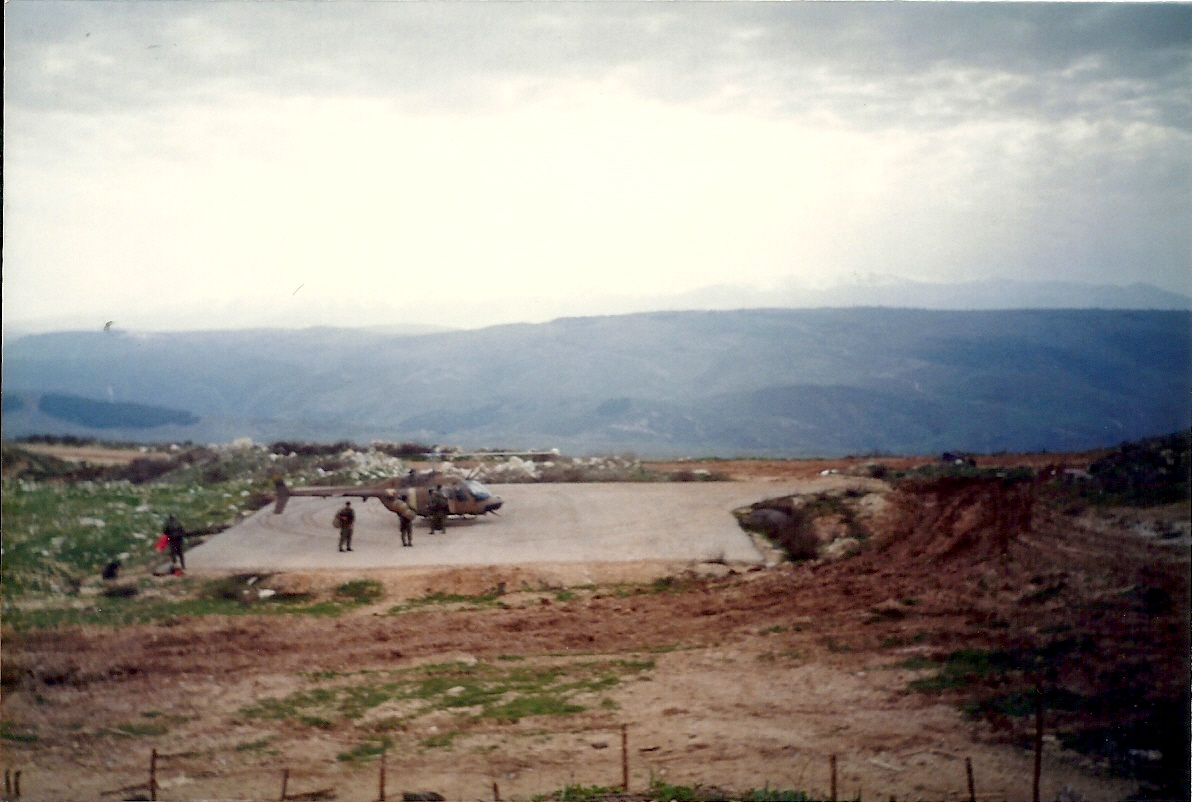 מנחת המסוקים במוצב דלעת ברצועת הביטחון בלבנון